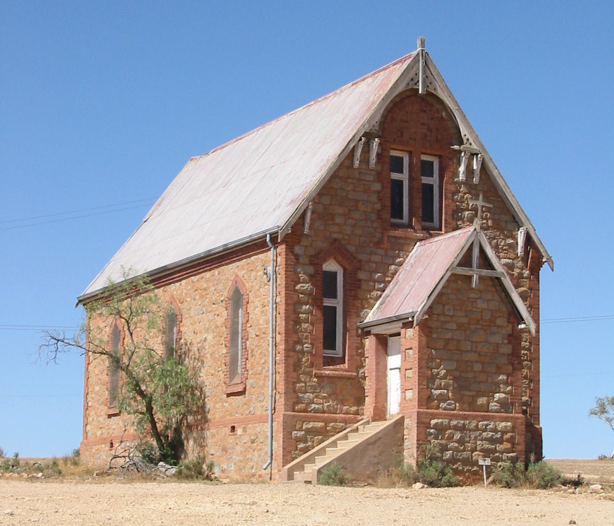 Church in Silverton, New South Wales.